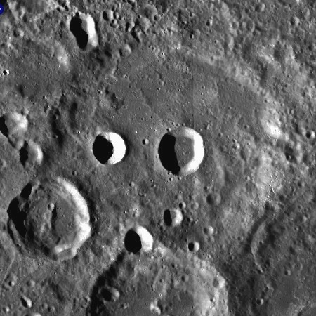 LROC . Rayleigh is the eroded crater at center, with satellites B and D on its floor ; also visible are craters Urey at lower left and Lyapunov at bottom center of image